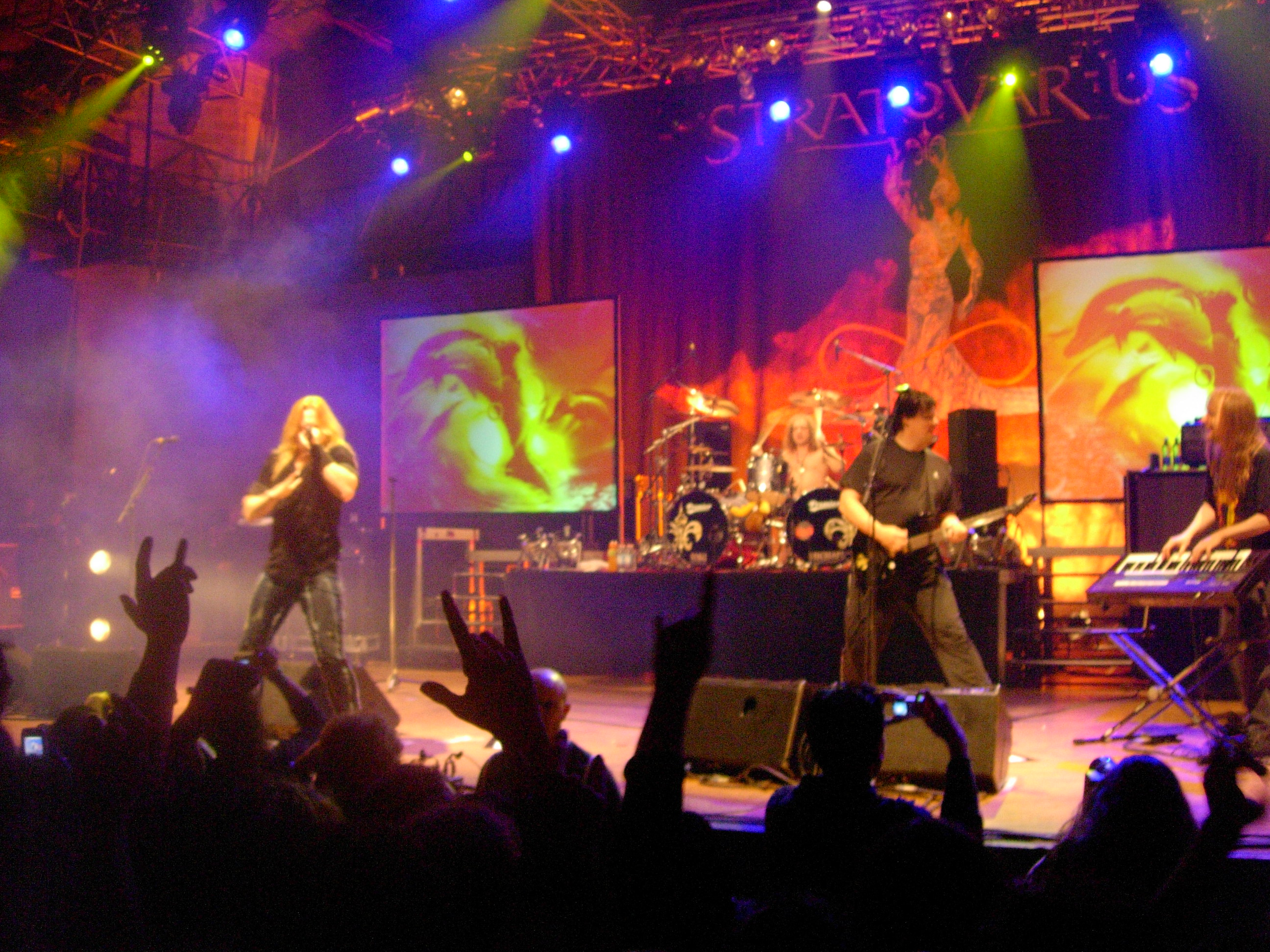 Stratovarius live in Milan.